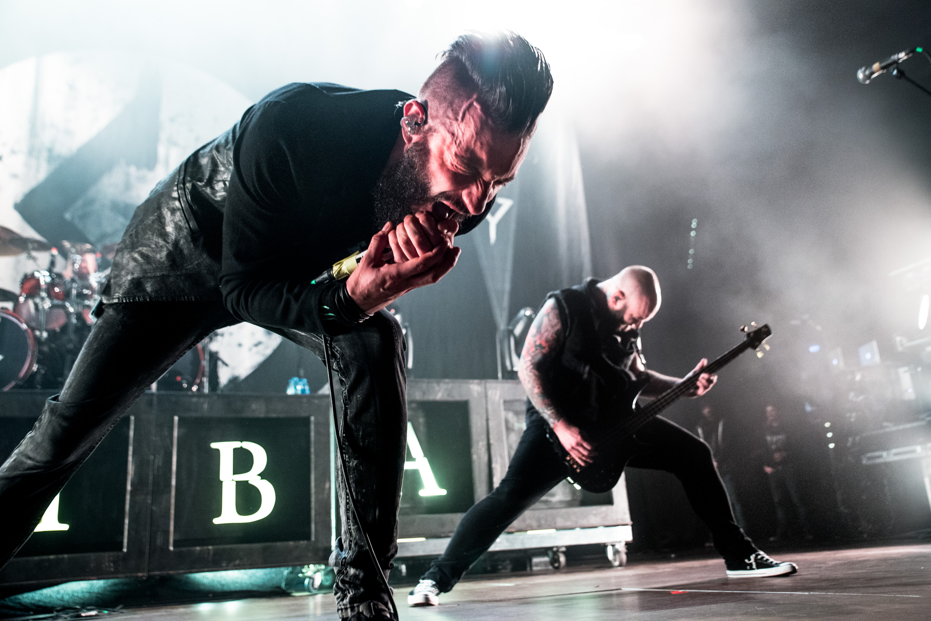 Caliban @ Rock im Park 2016